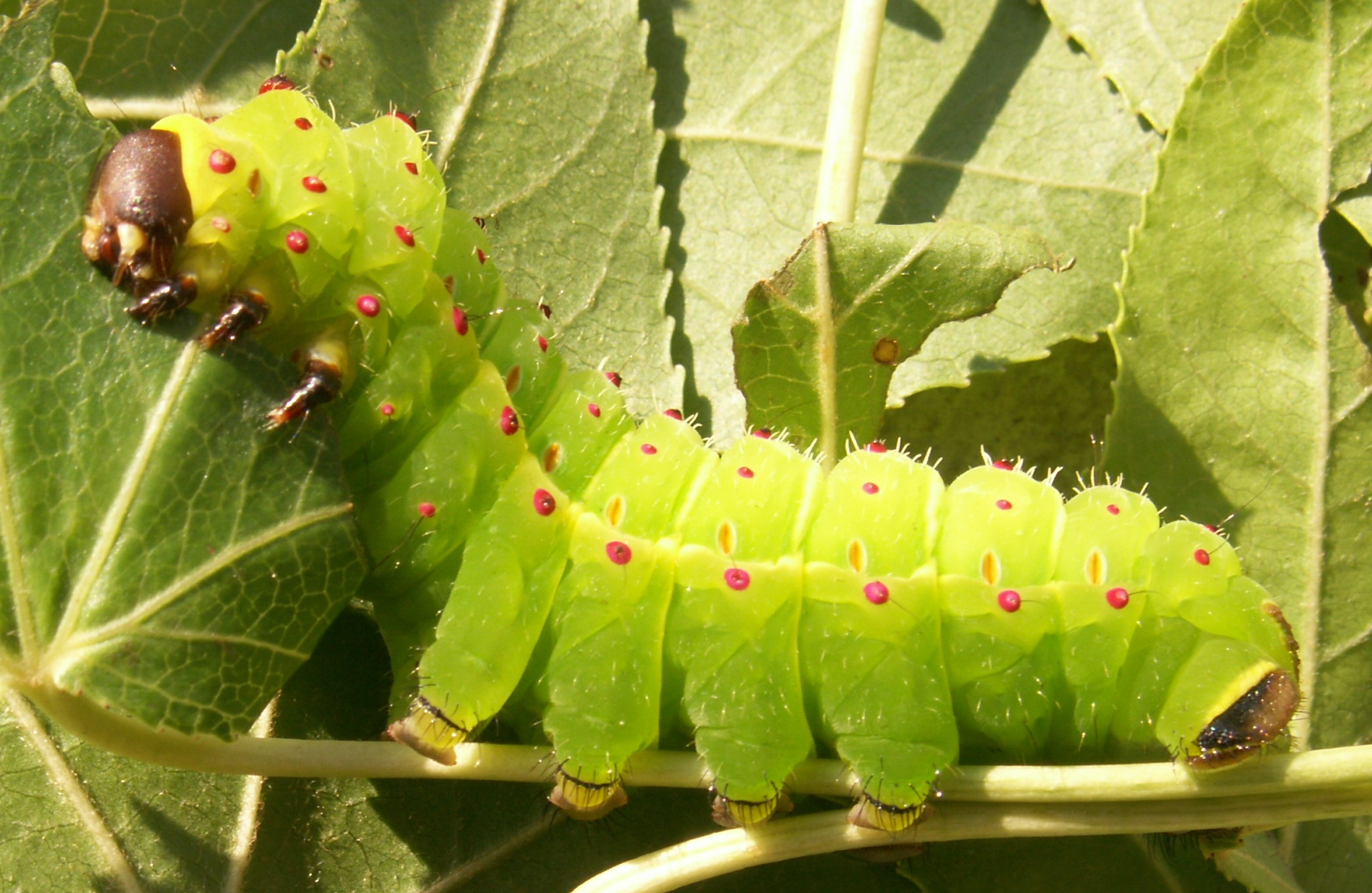 Actias luna 5th instar larva taken by Shawn Hanrahan. Reared on American Sweetgum.